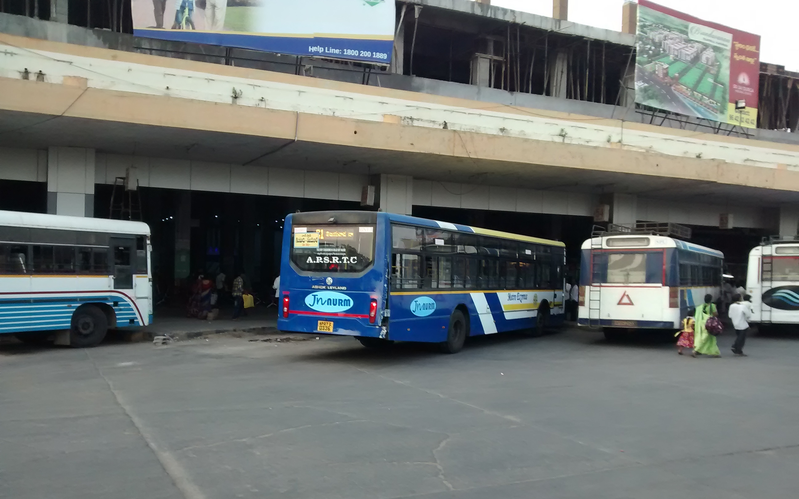 Pandit Nehru bus station departure terminal at Vjiayawada